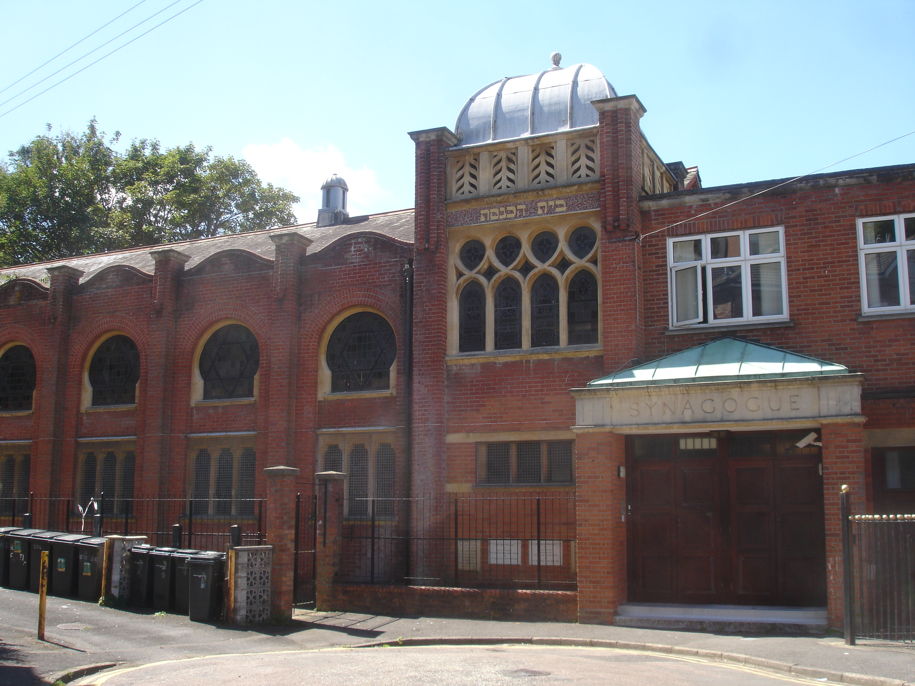 Bournemouth Hebrew Congregation, Wootton Gardens, Bournemouth, England, seen from the east